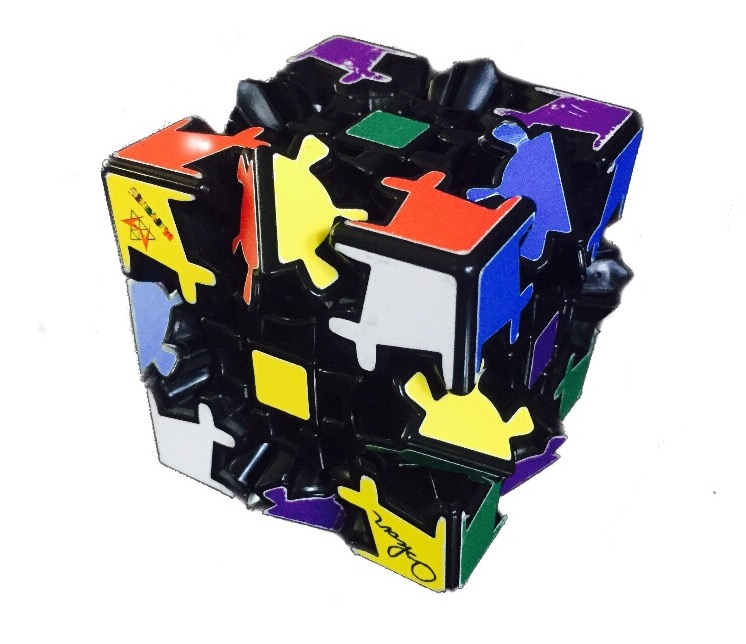 Puzzle - Mixed Gear Cube